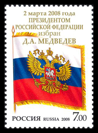 Postage stamp of Russia. D.A. Medvedev is elected President of the Russian Federation on March 2, 2008, 2008